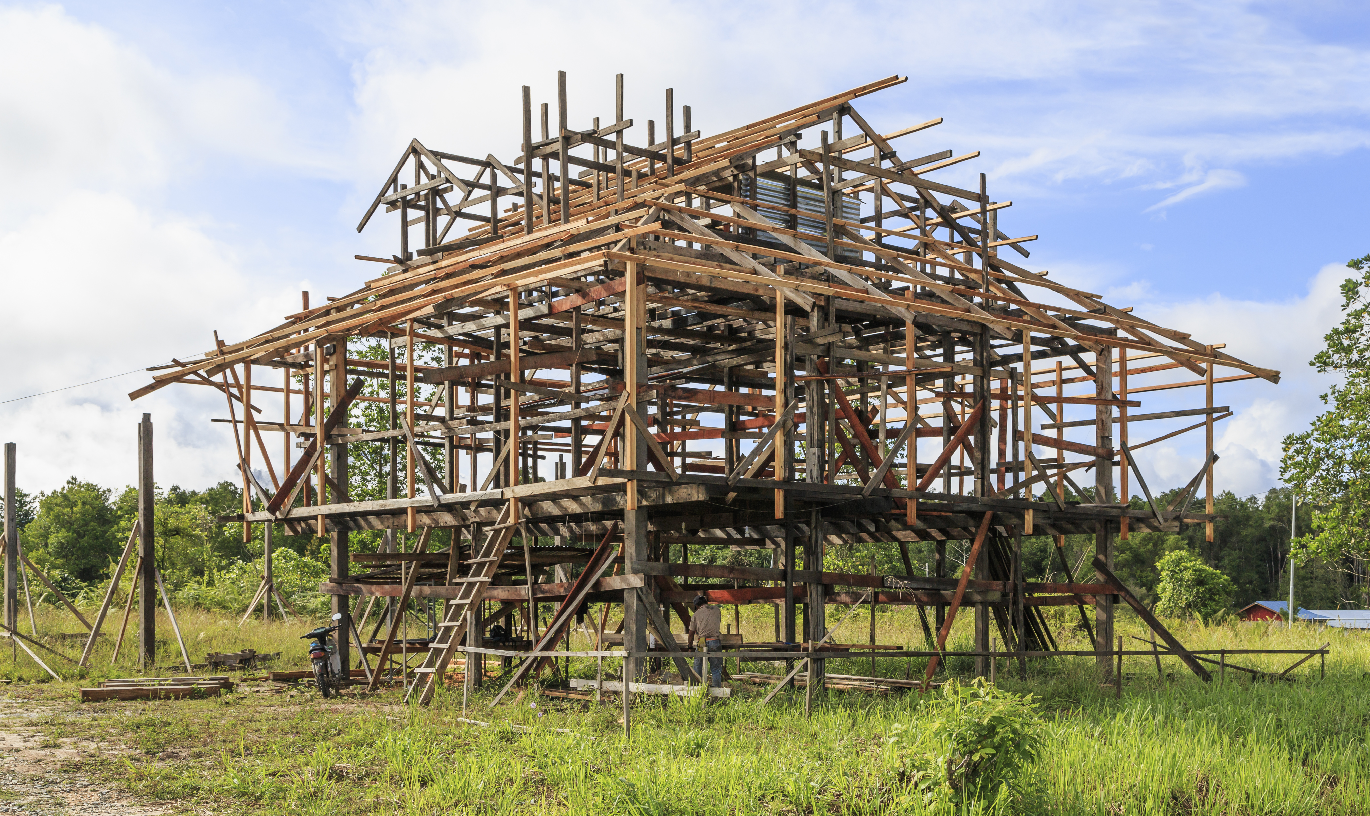 Kg. Salarom, Sapulut, Sabah: A carpenter is working at the frame of a newly built, traditional house in Kg Salarom